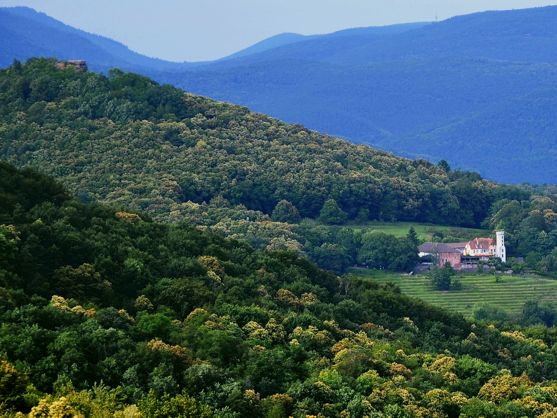 Slevogthof and Rock of former Castle "Neukastel"